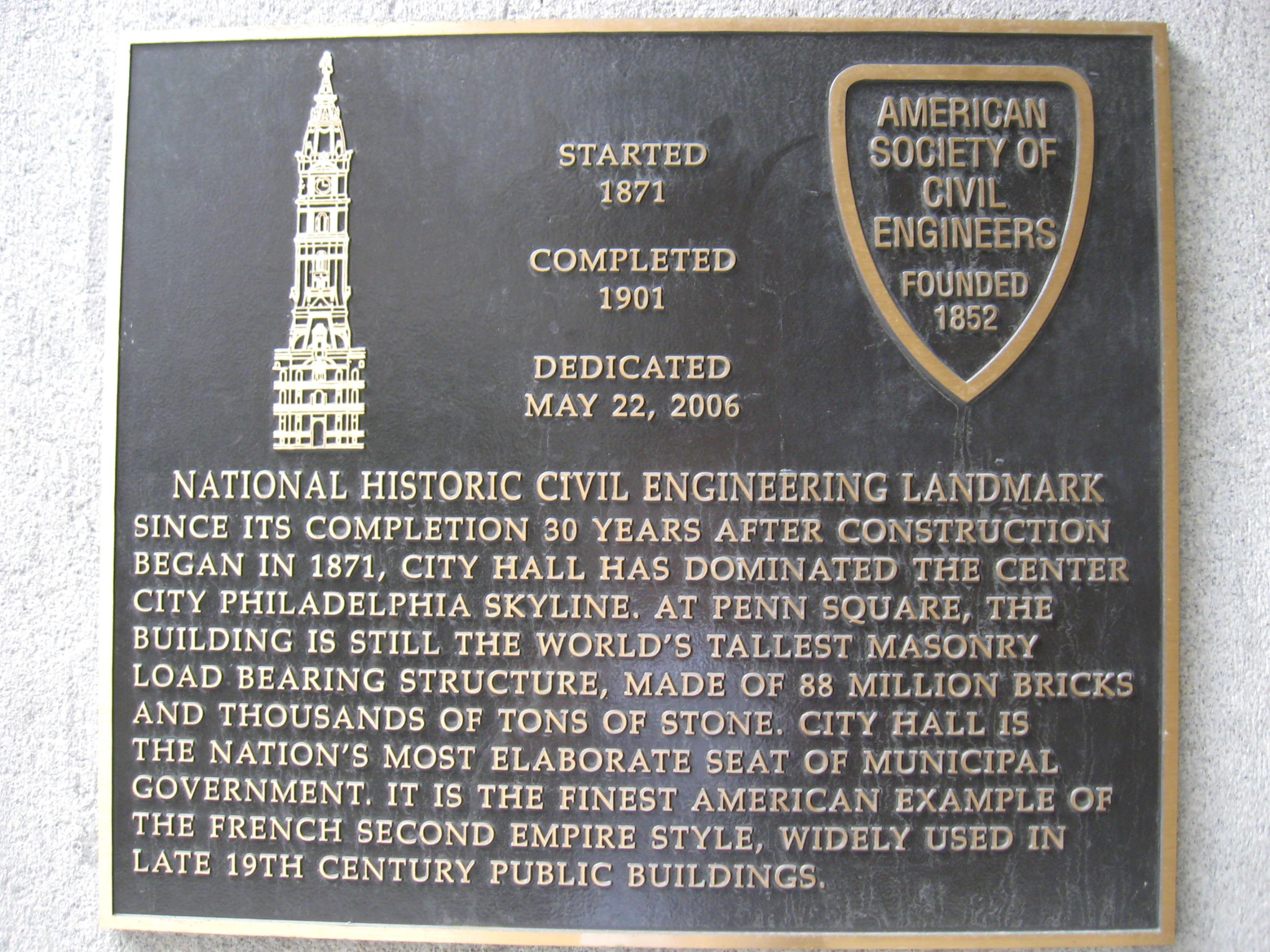 Philadelphia City Hall, 2014